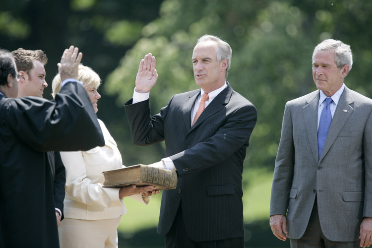 President George W. Bush stands with former Idaho Gov. Dirk Kempthorne as he is sworn-in as the new U.S. Secretary of Interior by Supreme Court Justice Antonin Scalia, left, Wednesday, June 7, 2006 on the South Lawn of the White House in Washington, D.C.. Patricia Kempthorne holds the Bible during her husband’s swearing-in, joined by their children Heather Myklegard and son, Jeff Kempthorne.